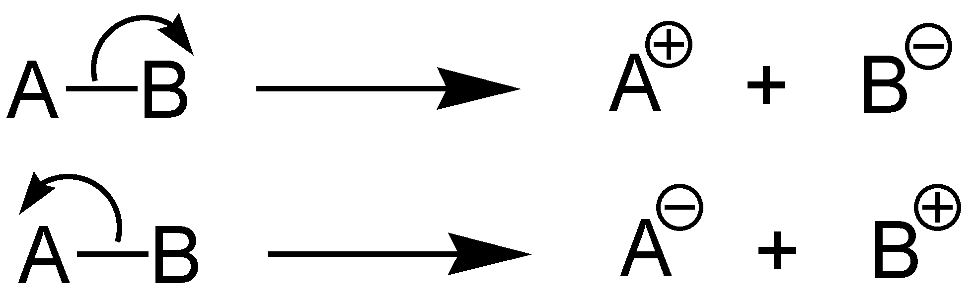 Heterolysis of a chemical bond